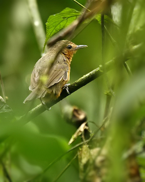 Dusky Antbird or Tyrannine Antbird (Cercomacra tyrannina). A female at Rio Silanche (PVM), NW Ecuador.